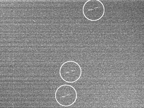 First moonlets discovered in Saturn's A ring